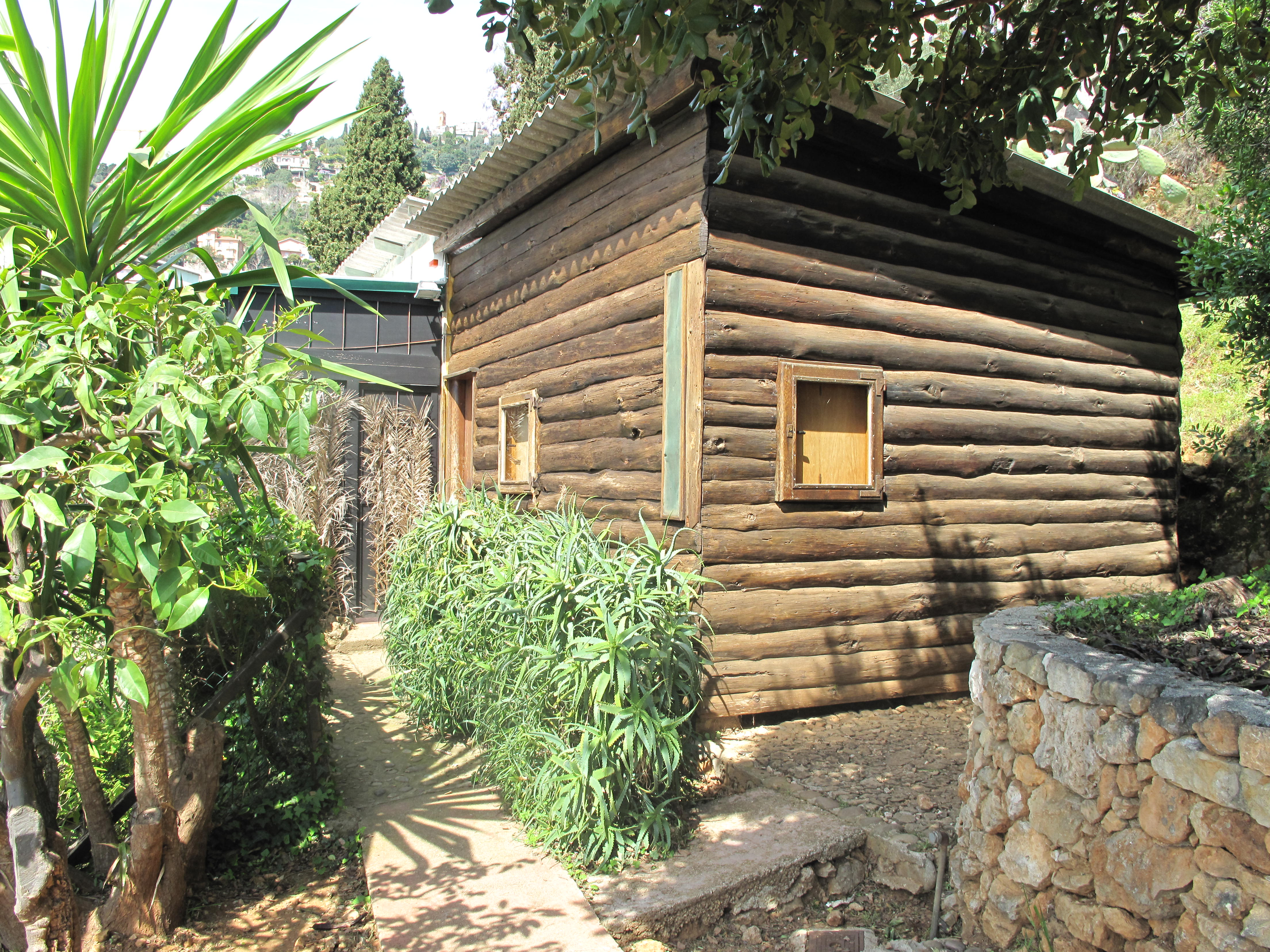 Cabin built by the well known French architect Le Corbusier where he spent the last years of his life, above the beach of Cap-Martin (Alpes-Maritimes, France). This photo is free of rights according freedom of panorama, because the construction is not enough original.